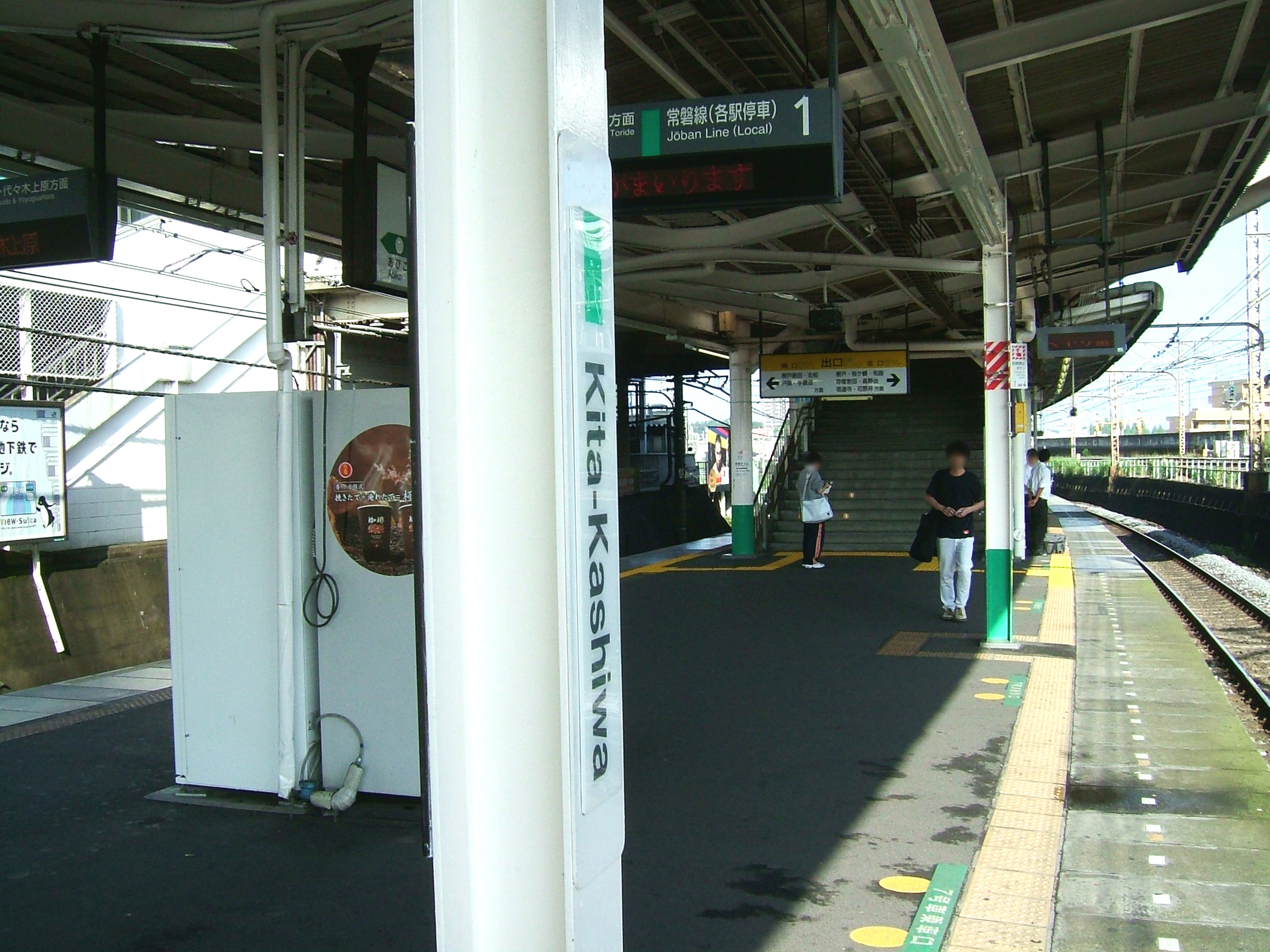 Kita-Kashiwa Station platform (East Japan Railway Jōban Line)